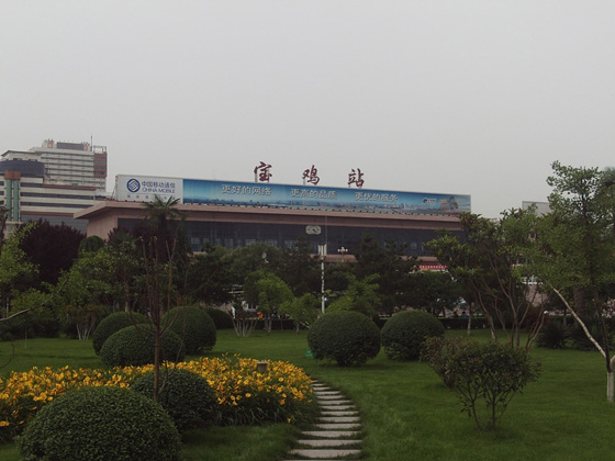 Baoji Station